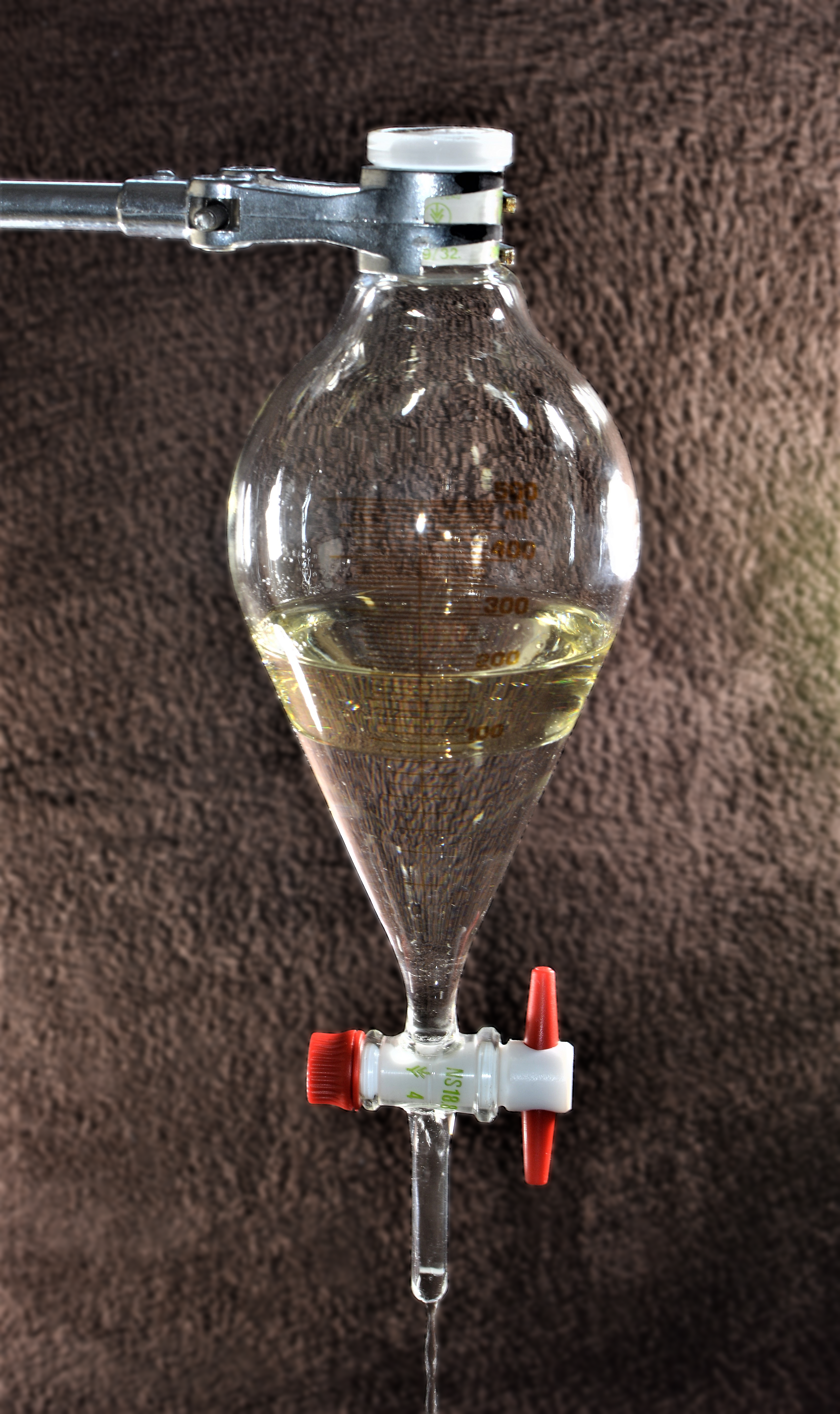 Seperatory Funnel with two phases